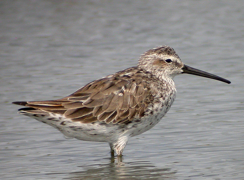 Stilt Sandpiper, Micropalama himantopus or Calidris himantopus Original description: We don't get to see the Stilt Sandpiper very often in Northern California, so we were excited to find them on our trip to Texas with Bob Stewart in 2005. This was was in a flock of shorebirds at Indian Point Park, along the Gulf Coast, some still in basic plumage, as this one.